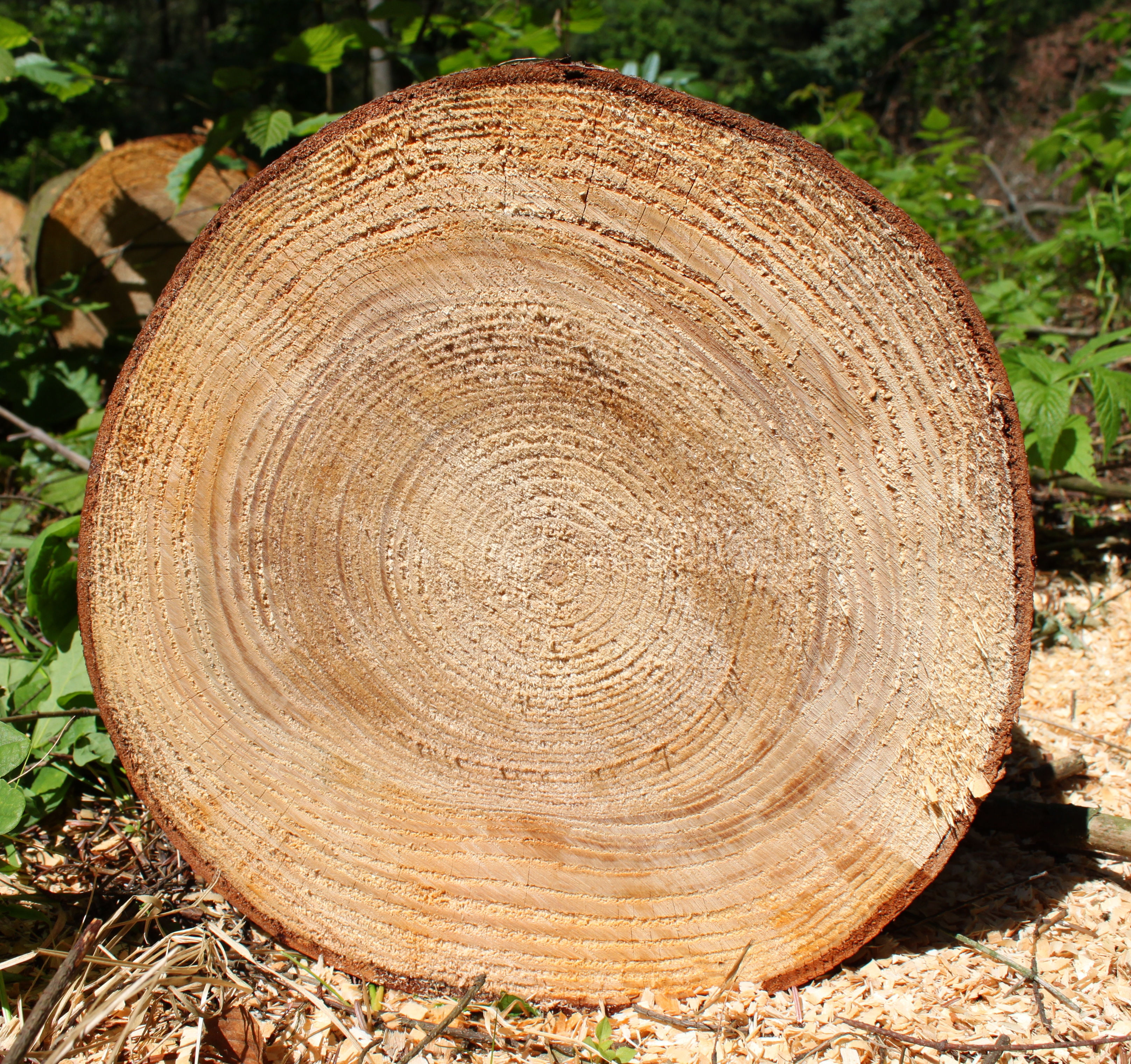 Grand Fir (Abies grandis) cross section, Rogów Arboretum, Poland